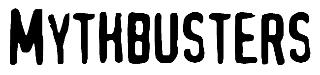 Recreated logo of MythBusters science entertainment television program